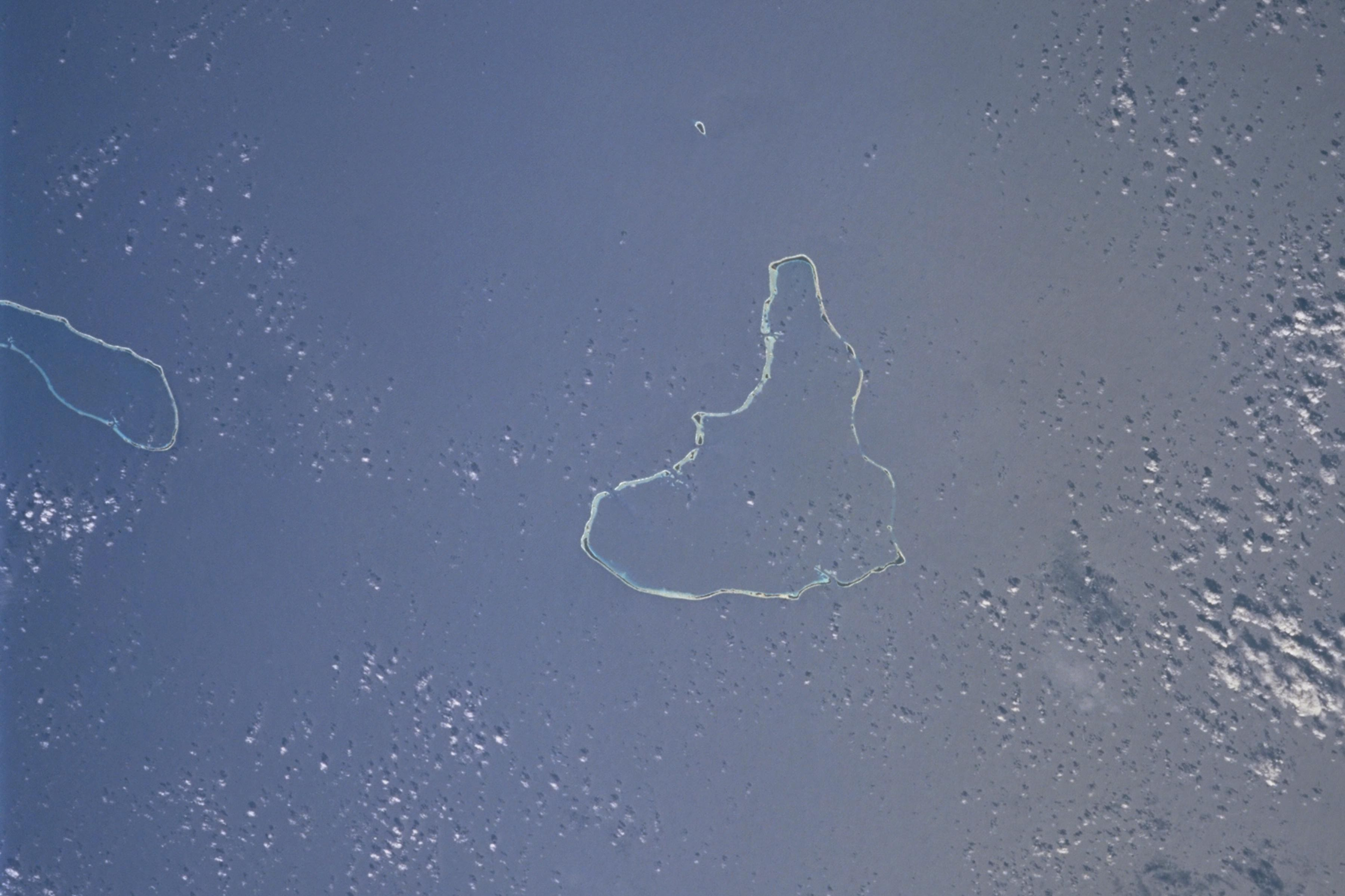 NASA astronaut image of Ailinglaplap Atoll, Marshall Islands